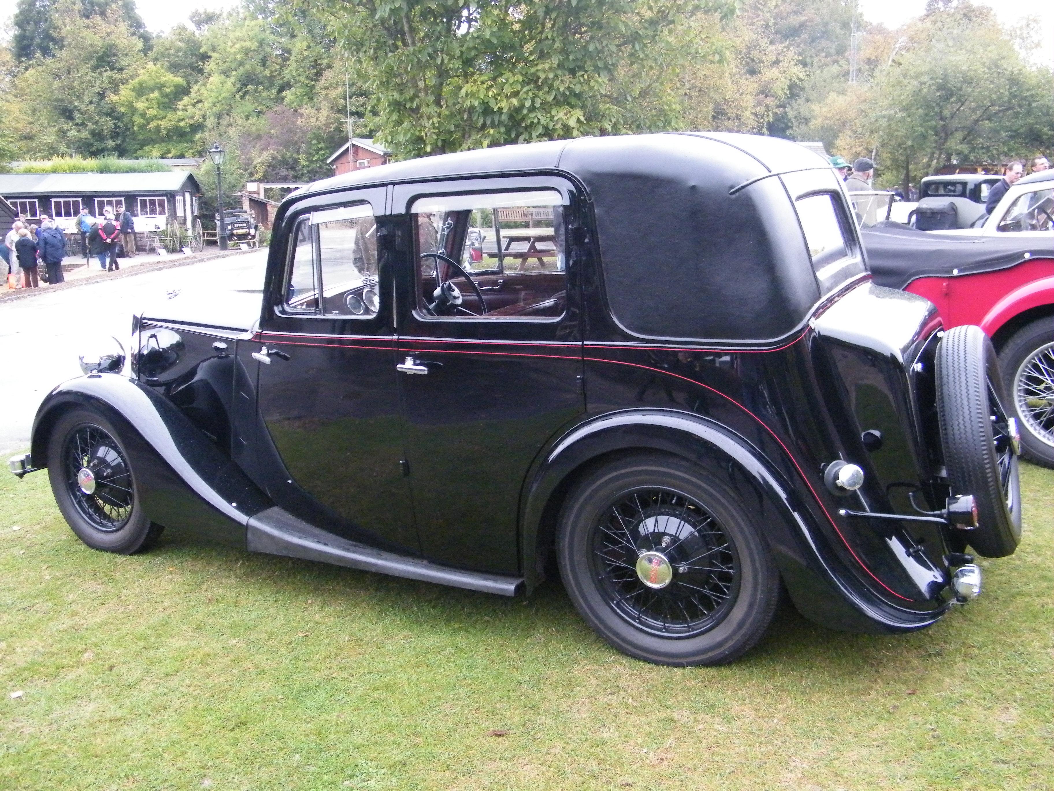 1935 Lanchester 12-6 Sports Saloon Amberley Museum and Heritage Centre